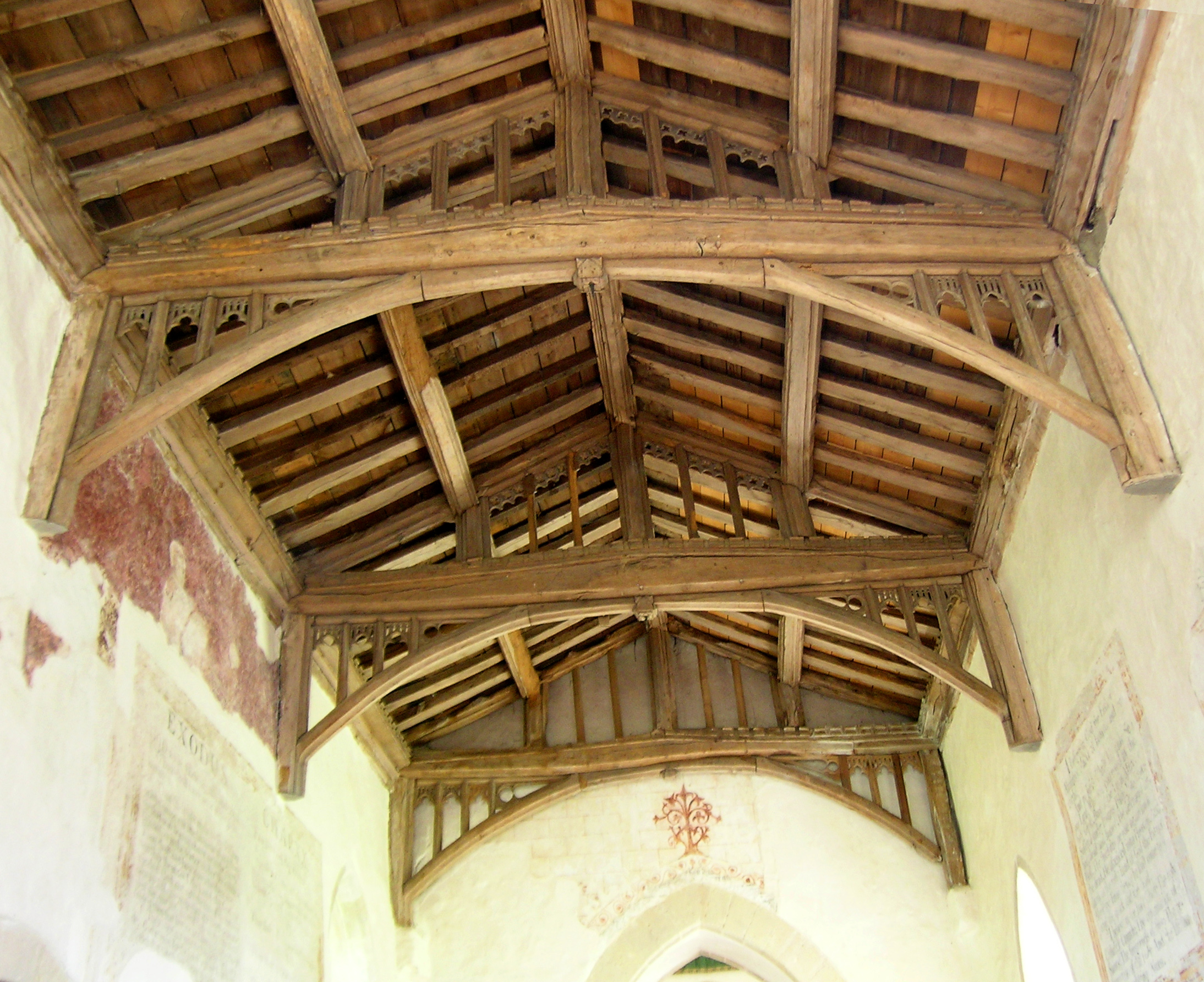 15th century tie-beam nave roof of the early 13th century parish church of St Mary the Virgin at Radnage, Bucks, England